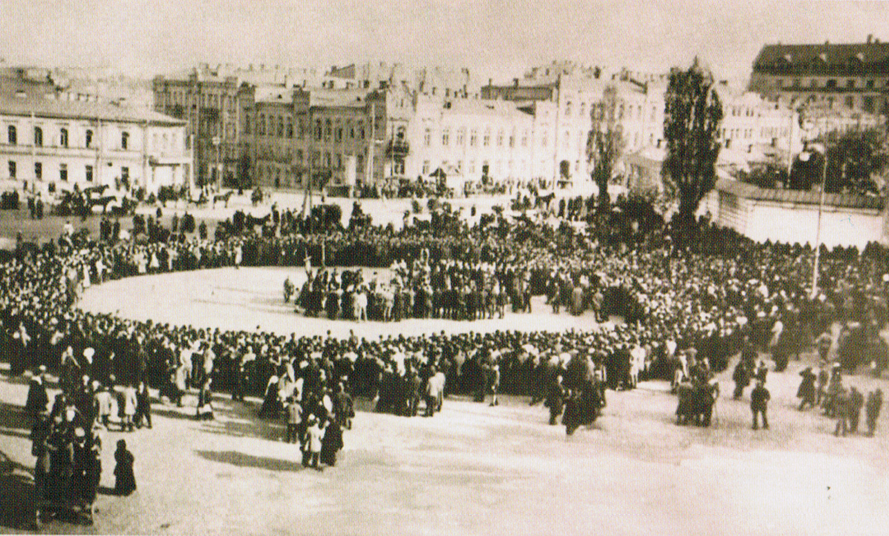 Prayer for Hetman Skoropadsky of Ukraine in Kyiv.